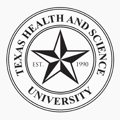 The official logo of the Texas Health and Science University.